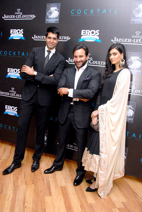 Saif Ali Khan & Diana Penty snapped at Imperial Hotel, New Delhi